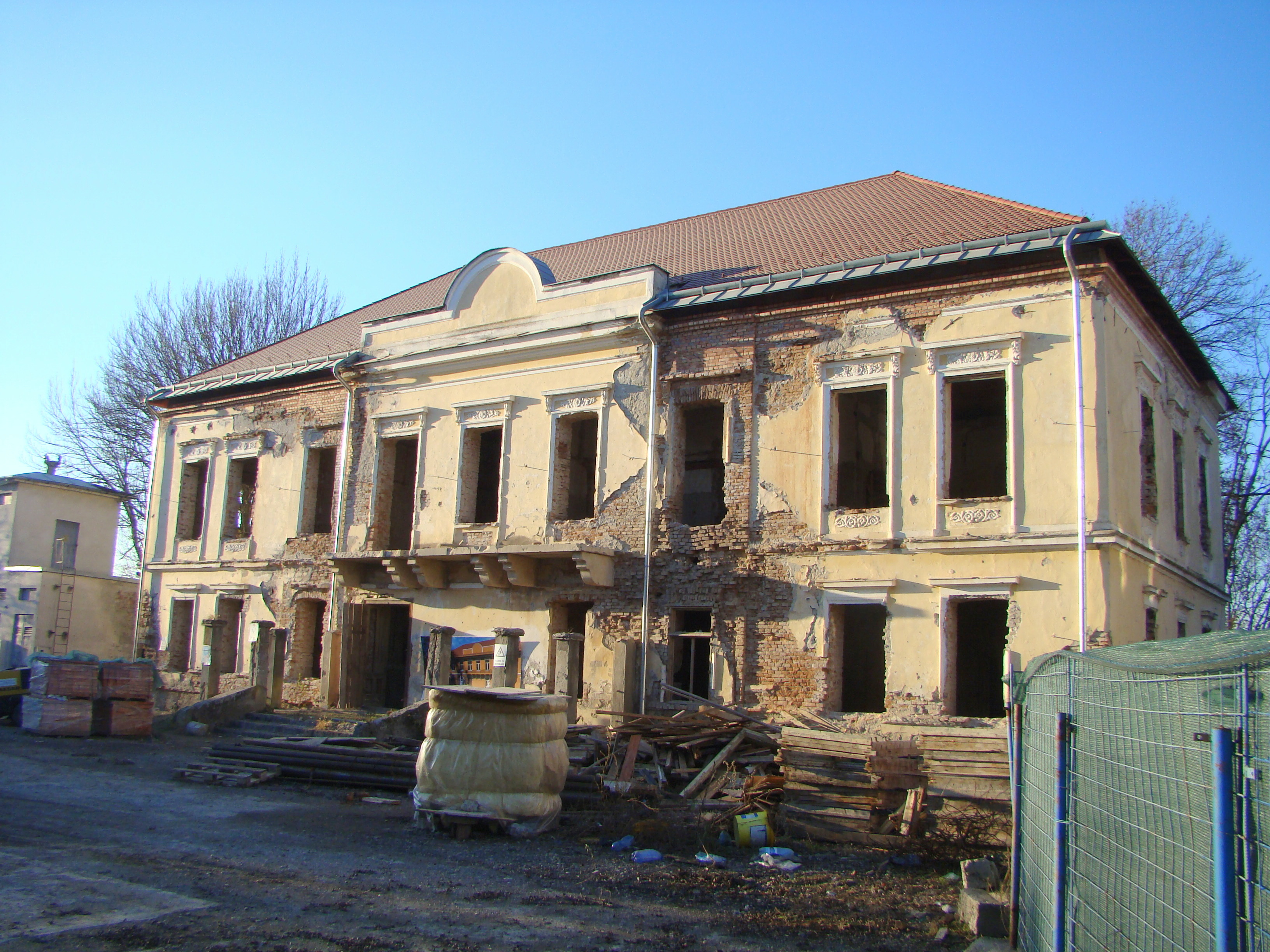 Mariaffi Castle in Sângeorgiu de Mureș, Mureș county, Romania